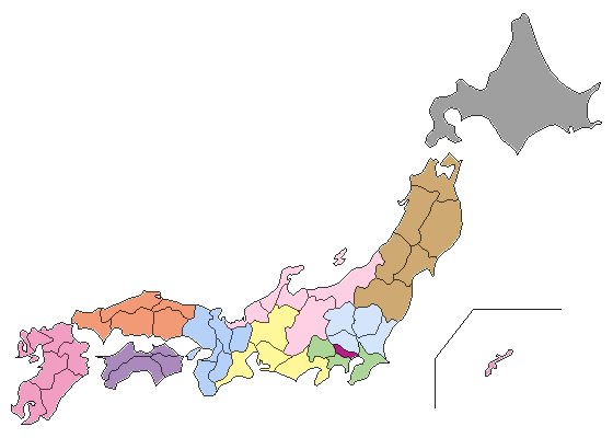 The map image of proportional representation of Japanese House of Representives